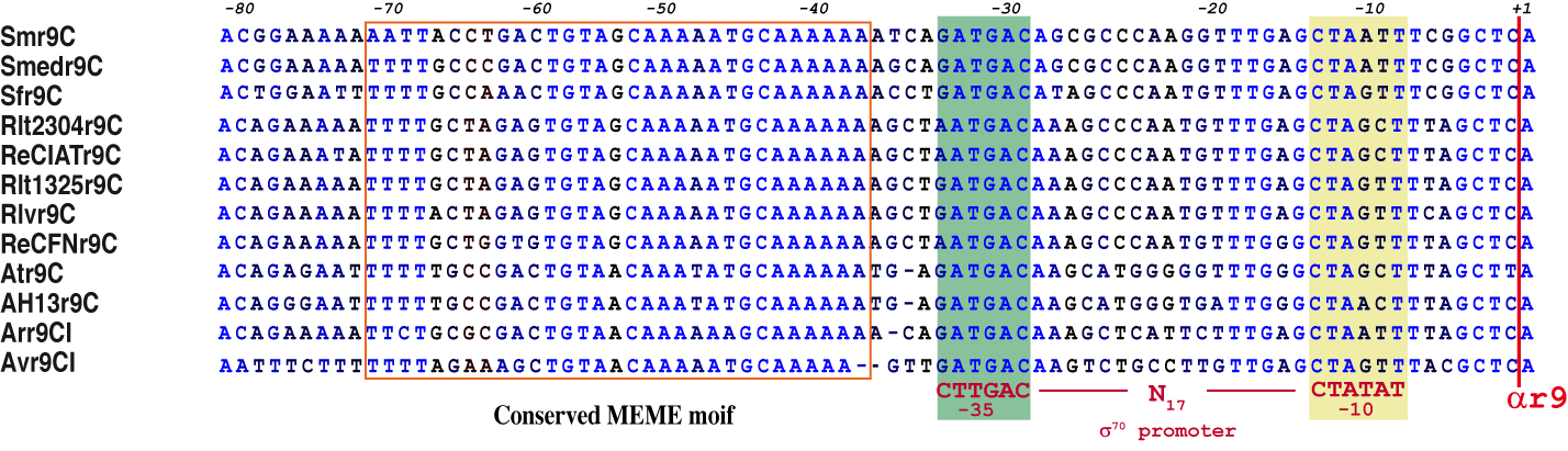 9C promoters